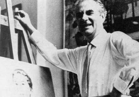 Silpa Bhirasri a bureau